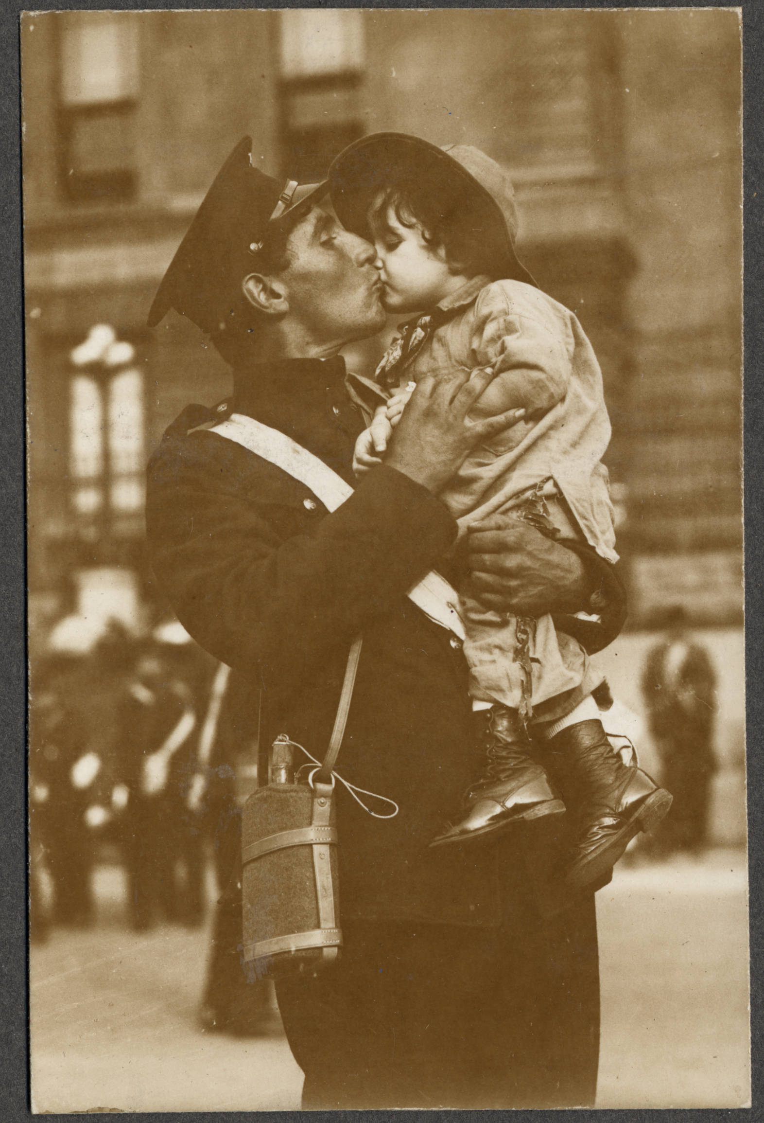 Item is a photograph taken by J. A. Millar from an album depicting scenes of the Canadian Expeditionary Force at Valcartier Camp, at Quebec, and at Gaspe Harbour immediately prior to sailing to Britain in 1914. Millar was a staff photographer of the Montreal Daily Star and produced the album in 1915.